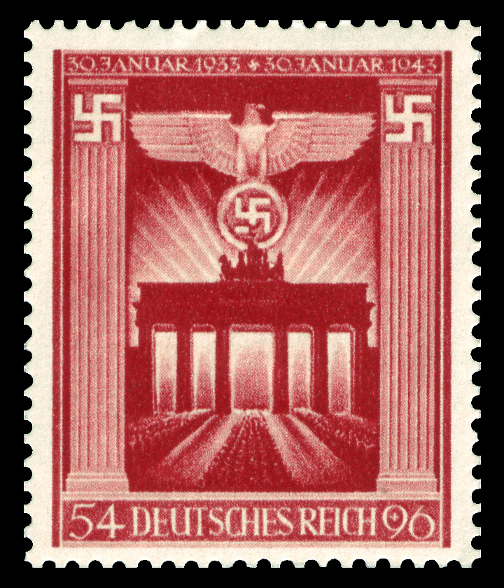 10th anniversary of the takeover by Hitler Graphics by G. Klein Ausgabepreis: 54+96 Pfennig First Day of Issue / Erstausgabetag: 26. Januar 1943 Michel-Katalog-Nr: 829 (Deutsches Reich)